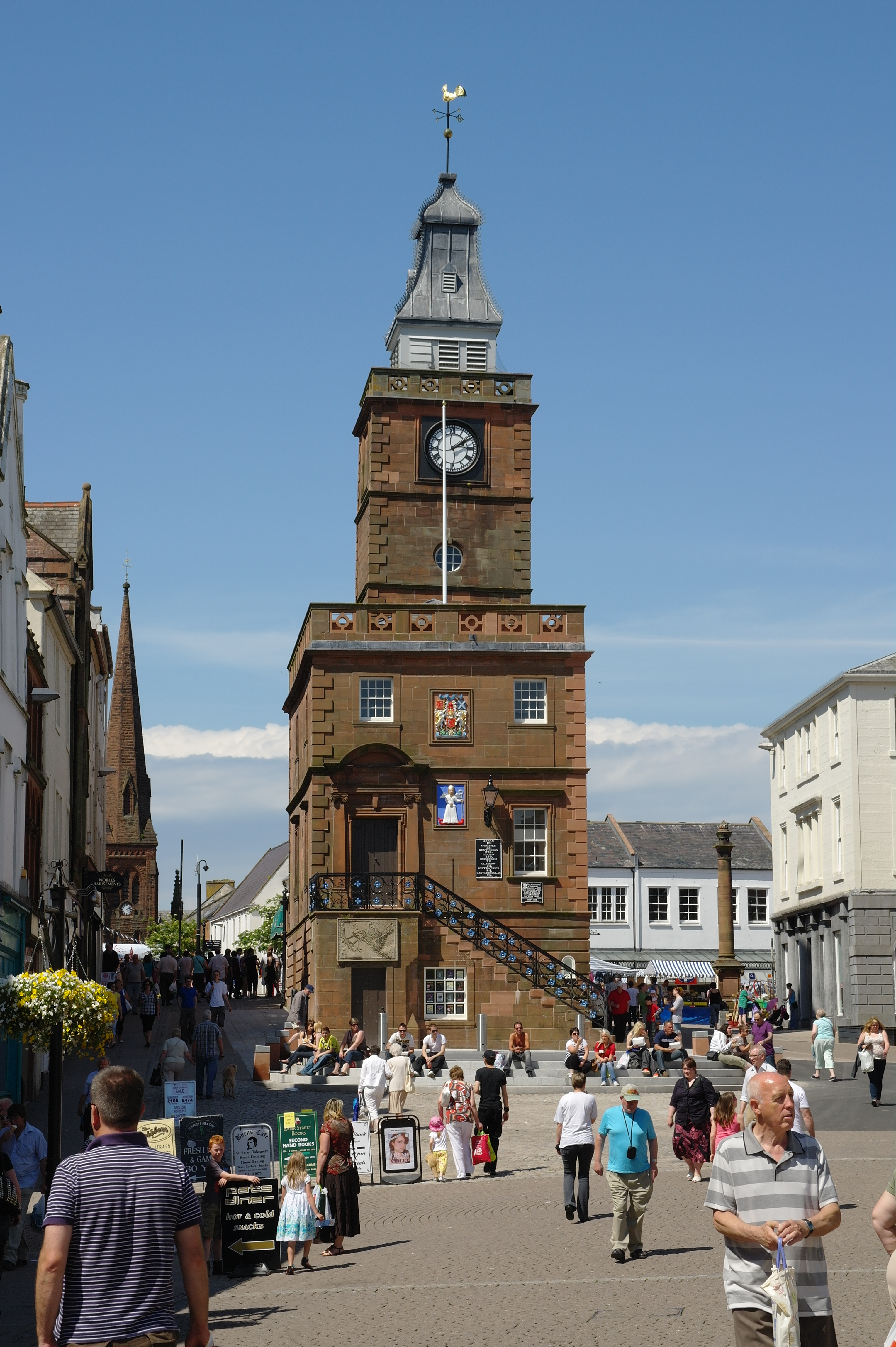 Midsteeple, High Street, Dumfries after the area's refurbishment in June 2010.